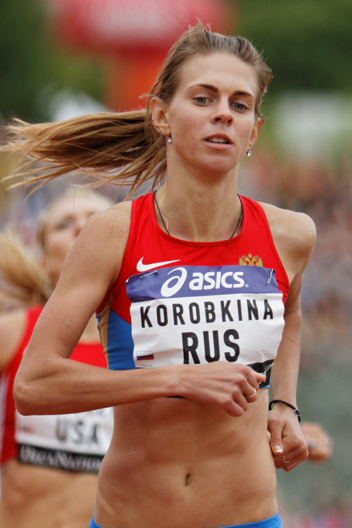 Yelena Korobkina of Russia competing at DécaNation 2014 in the 1500m.